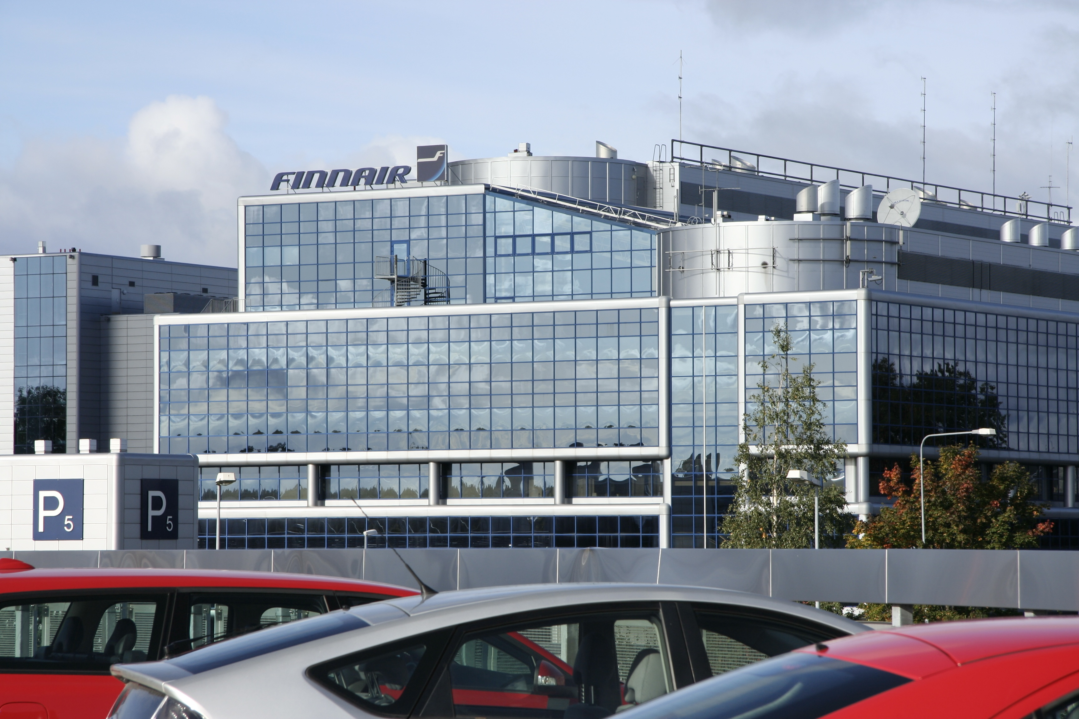 Finnair Crew centre (TOKE building) at Helsinki-Vantaa Airport, Vantaa, Finland